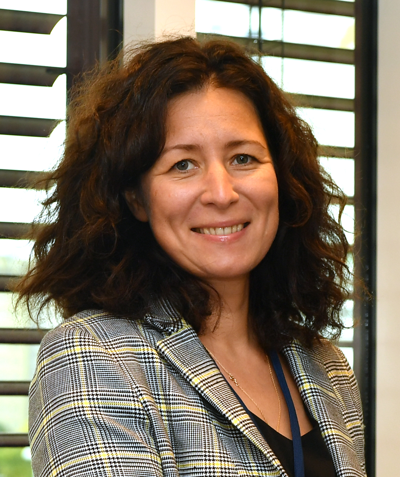 Lina Sabaitienė